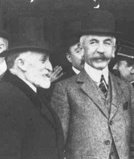 Madrid, March 1914: French ambassador Léon Geoffray (left) with the general Hubert Lyautey (right). Photo Agence Rol, public domain, coll. BNF Gallica.